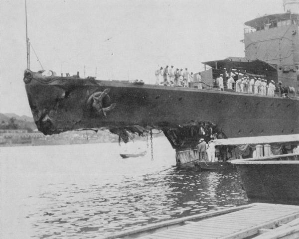 "Jintsu", light cruiser of the Imperial Japanese Navy, collided with destroyer "Warabi" in night training, August 24, 1927. "Warabi" was sunk at once and "Jintsu" was damaged at bow. This photo was taken a few days later at Maizuru.